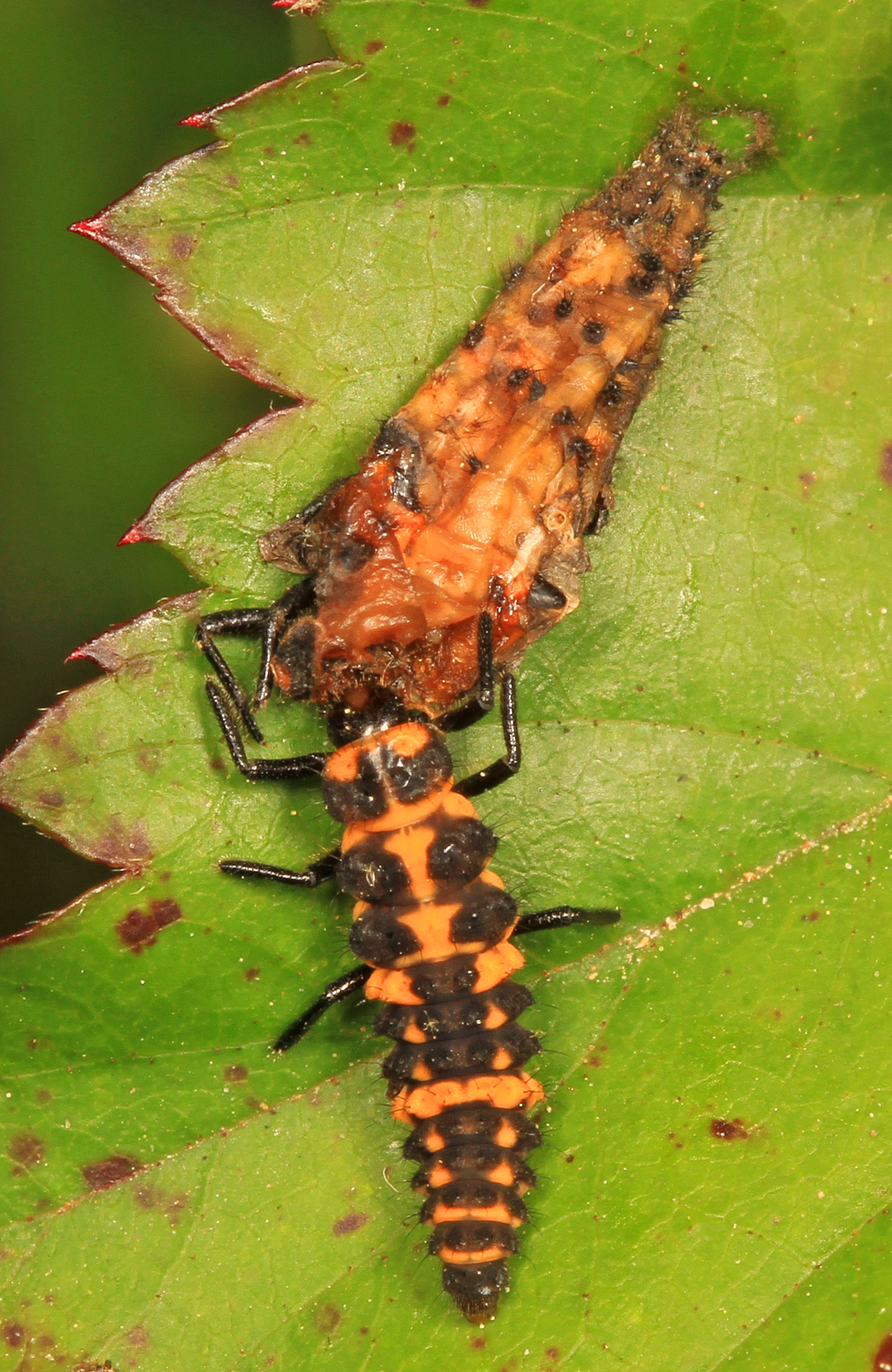 Spotted Lady Beetle larva - Coleomegilla maculata, Catahoula National Wildlife Refuge, Jena, Louisiana.